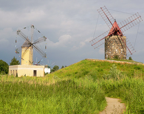 Mills at the International Wind- and Watermill Museum, Gifhorn, Germany. Left: Balearic mill from Majorca; right: mills from Provence in France